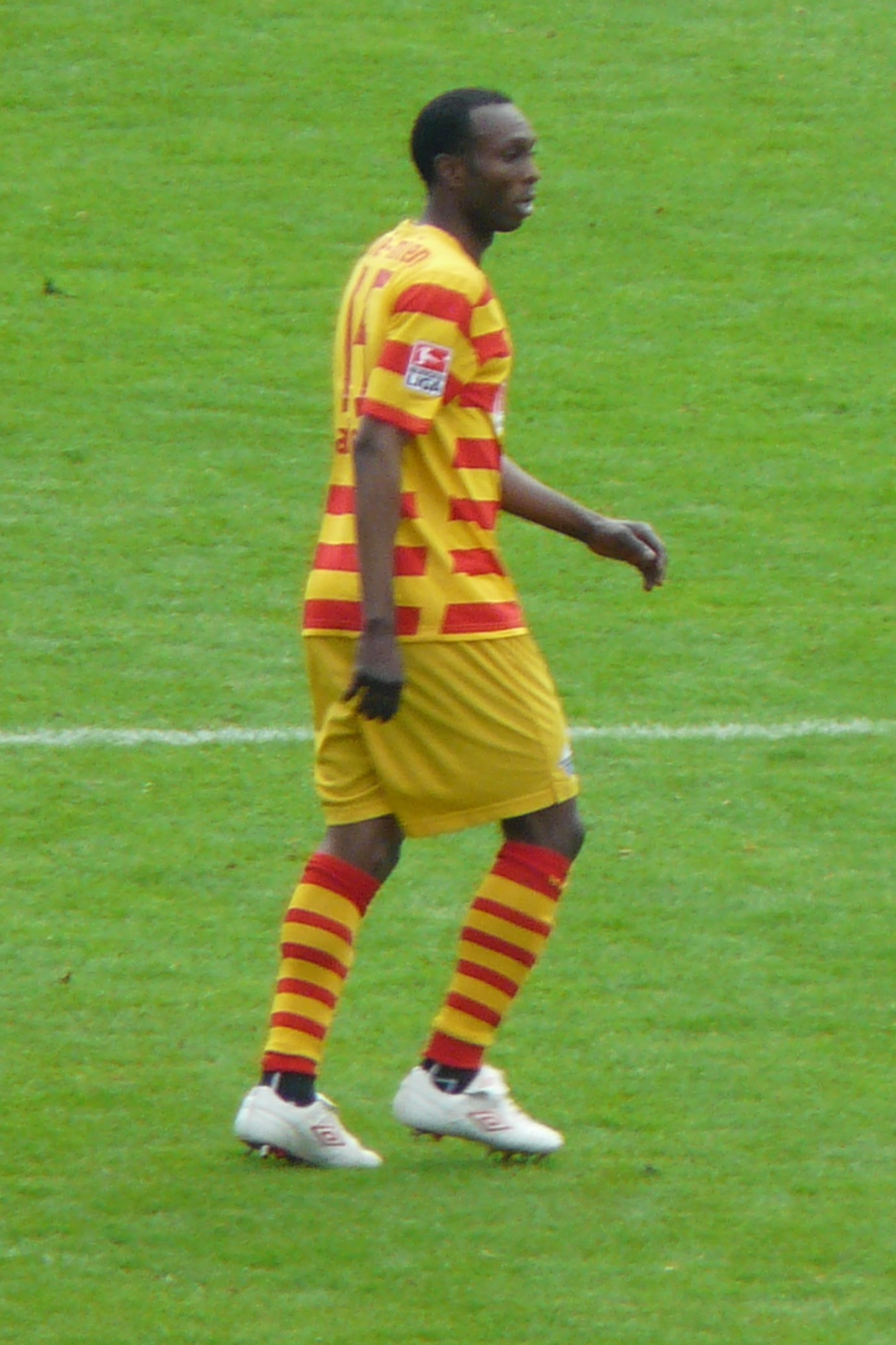 Rolf-Christel Guié-Mien as Player from SC Paderborn